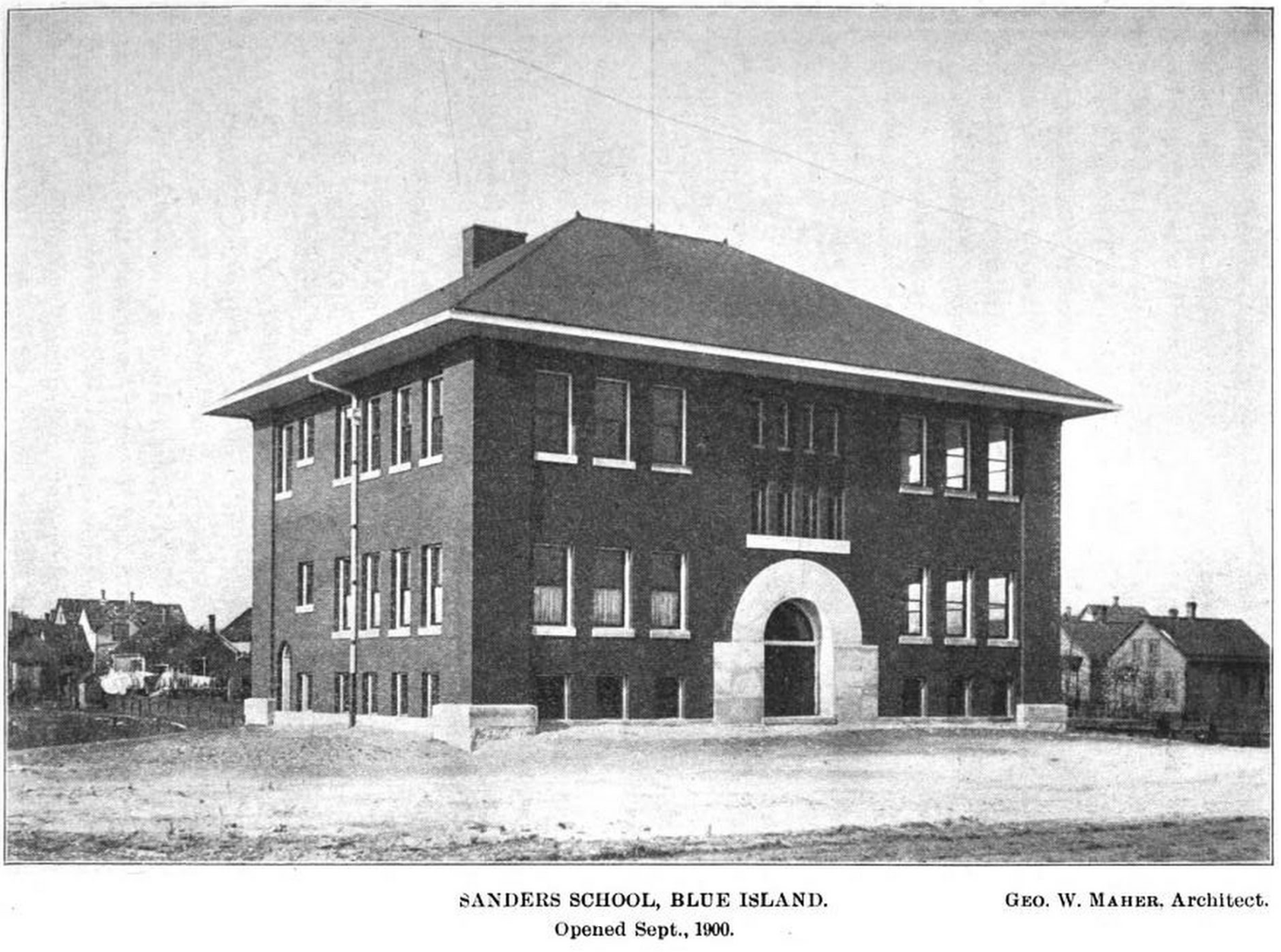 Image of Sanders School, Blue Island, IL, when it was new